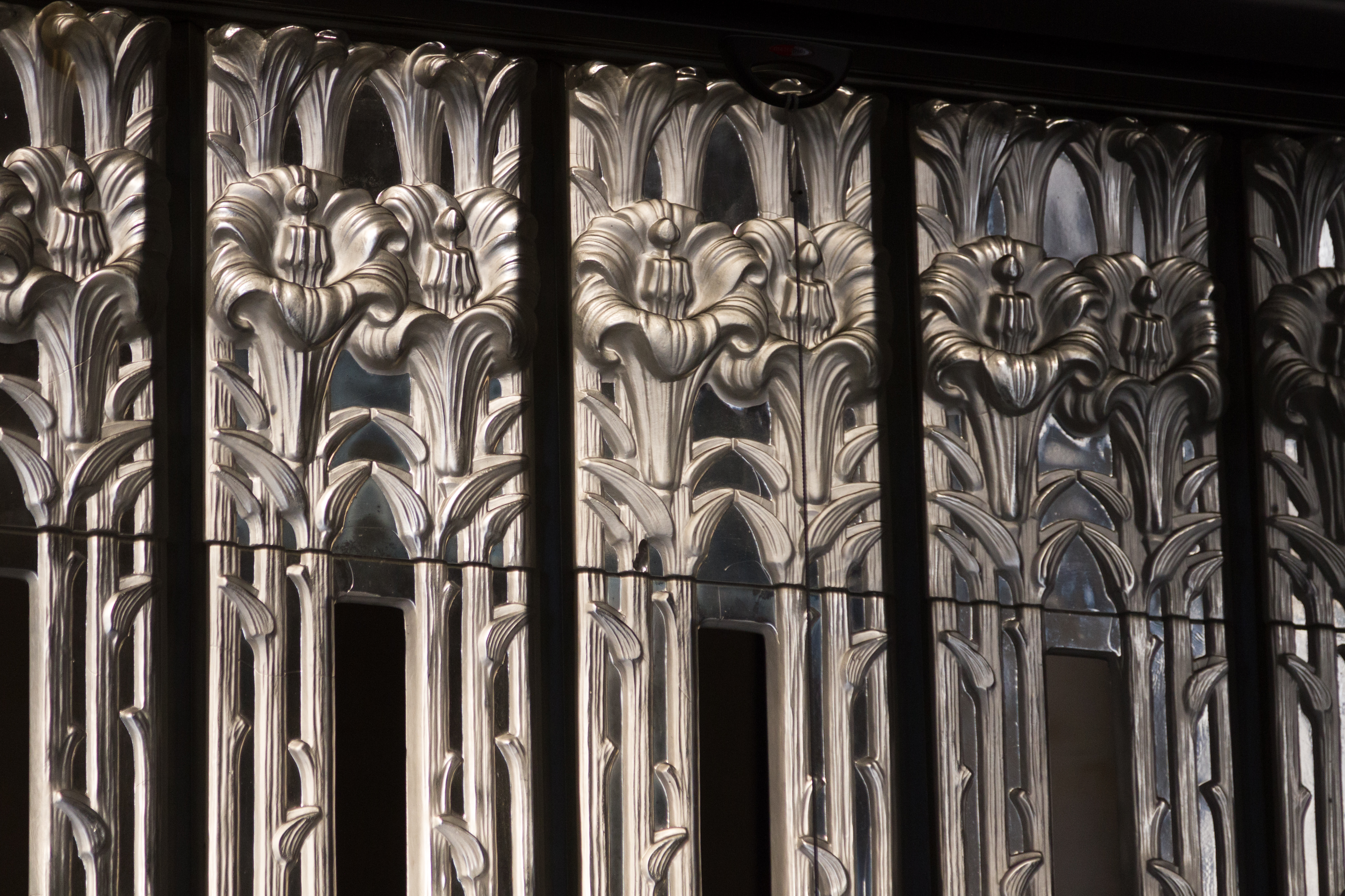 Close-up of a Lalique glass partition in St Matthew's Church in Jersey.